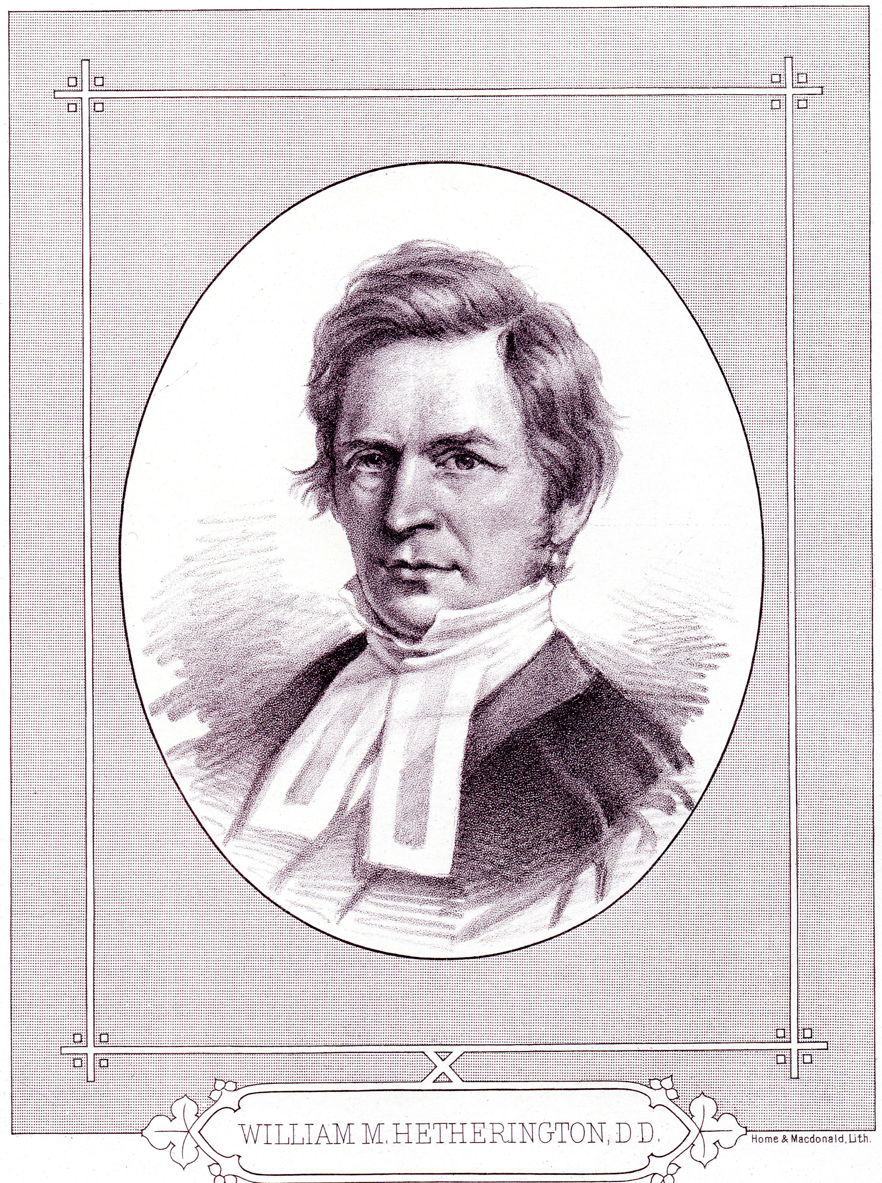 William Maxwell Hetherington c.1850